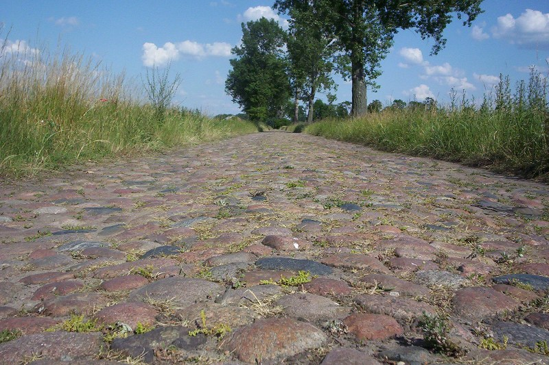 Cobblestoned road from Guzów to Oryszew (Masovia, Poland). It is 2.4 kilometres long.